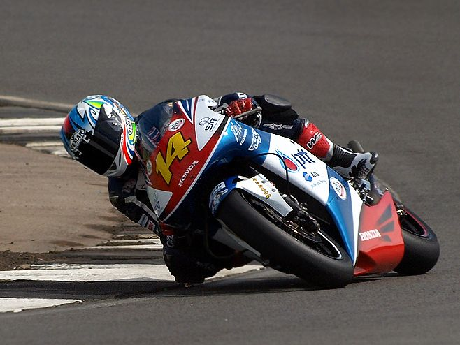 Ratthapark Wilairot, Thai Honda PTT SAG 25cc